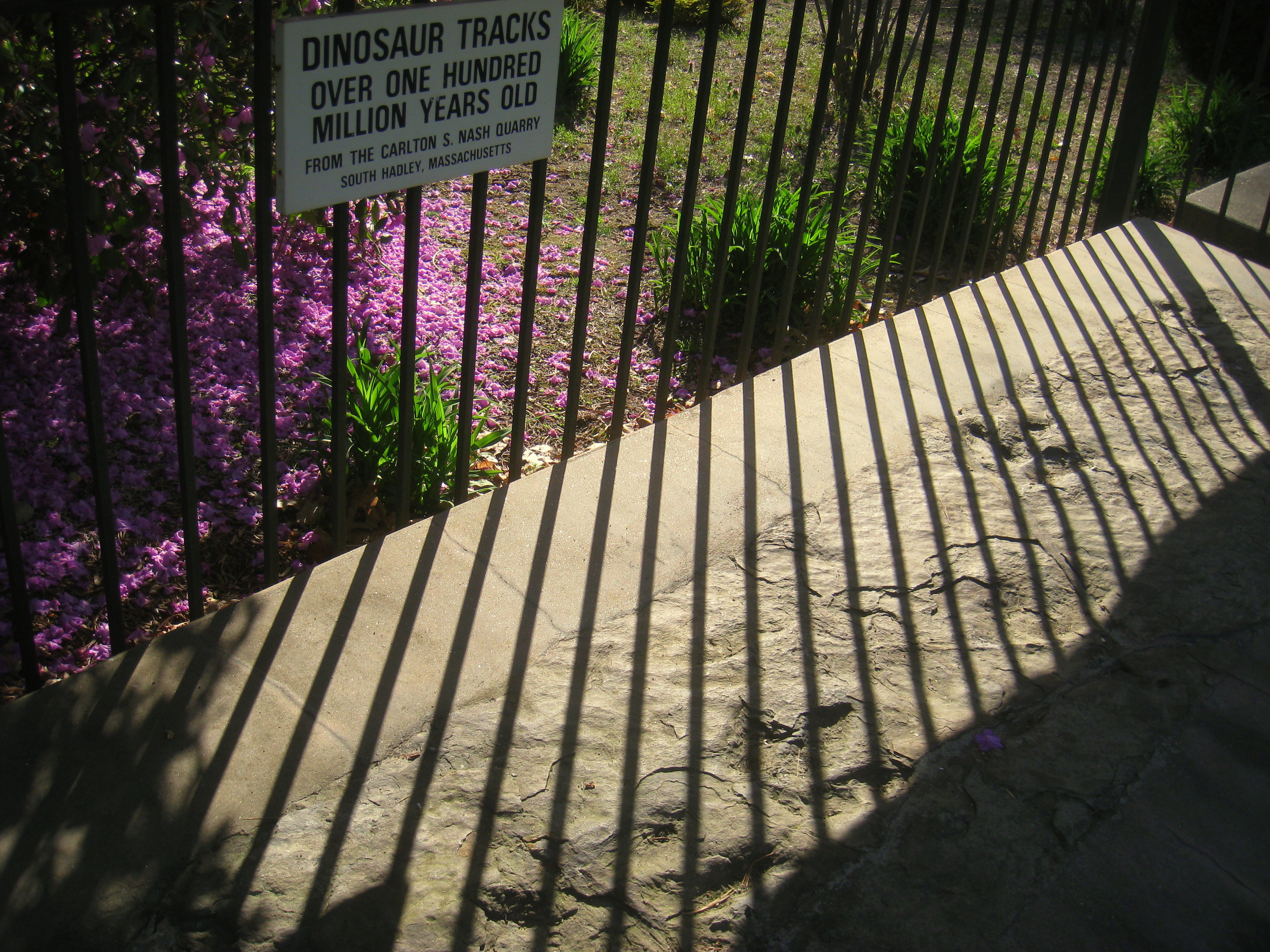 Stanley Park of Westfield - Westfield, Massachusetts, USA.